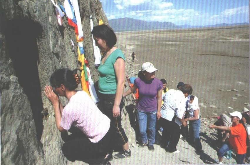 Nisha Sume